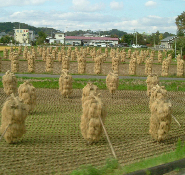 rice paddies near Morioka